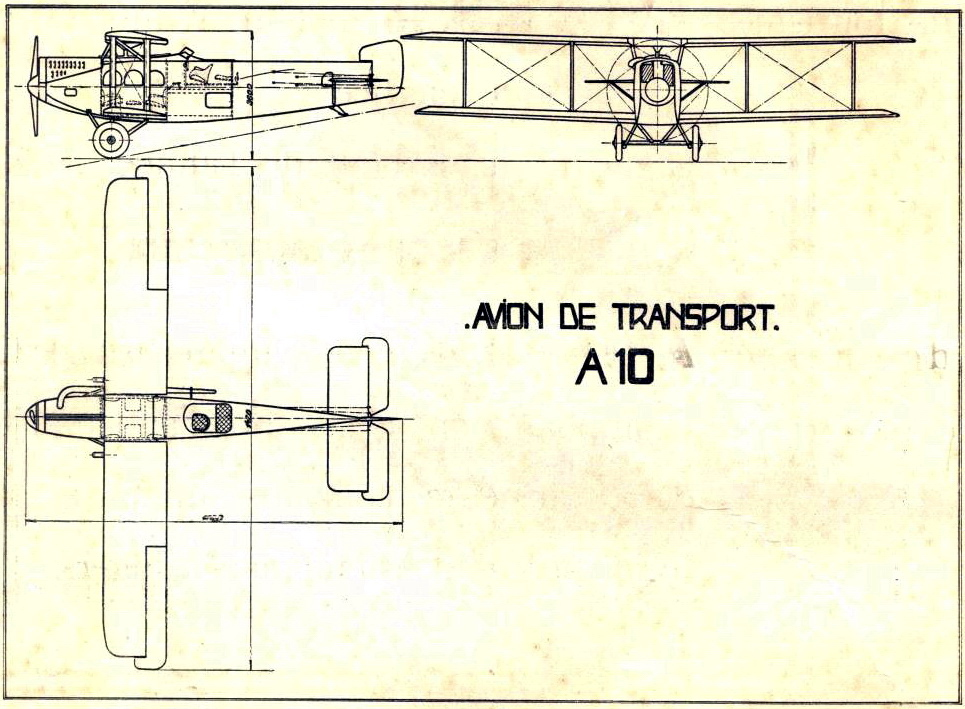 Aircraft Aero A-10, drawing